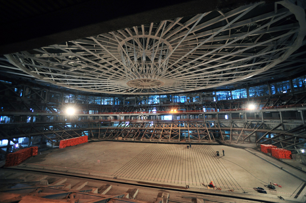 “Construction of Olympic facilities in Imereti Valley”. The Bolshoi Ice Palace under construction in the Imereti Valley.